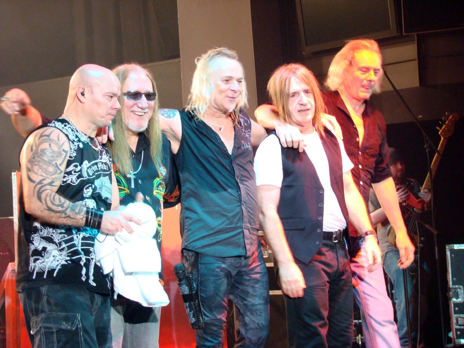 Uriah Heep live